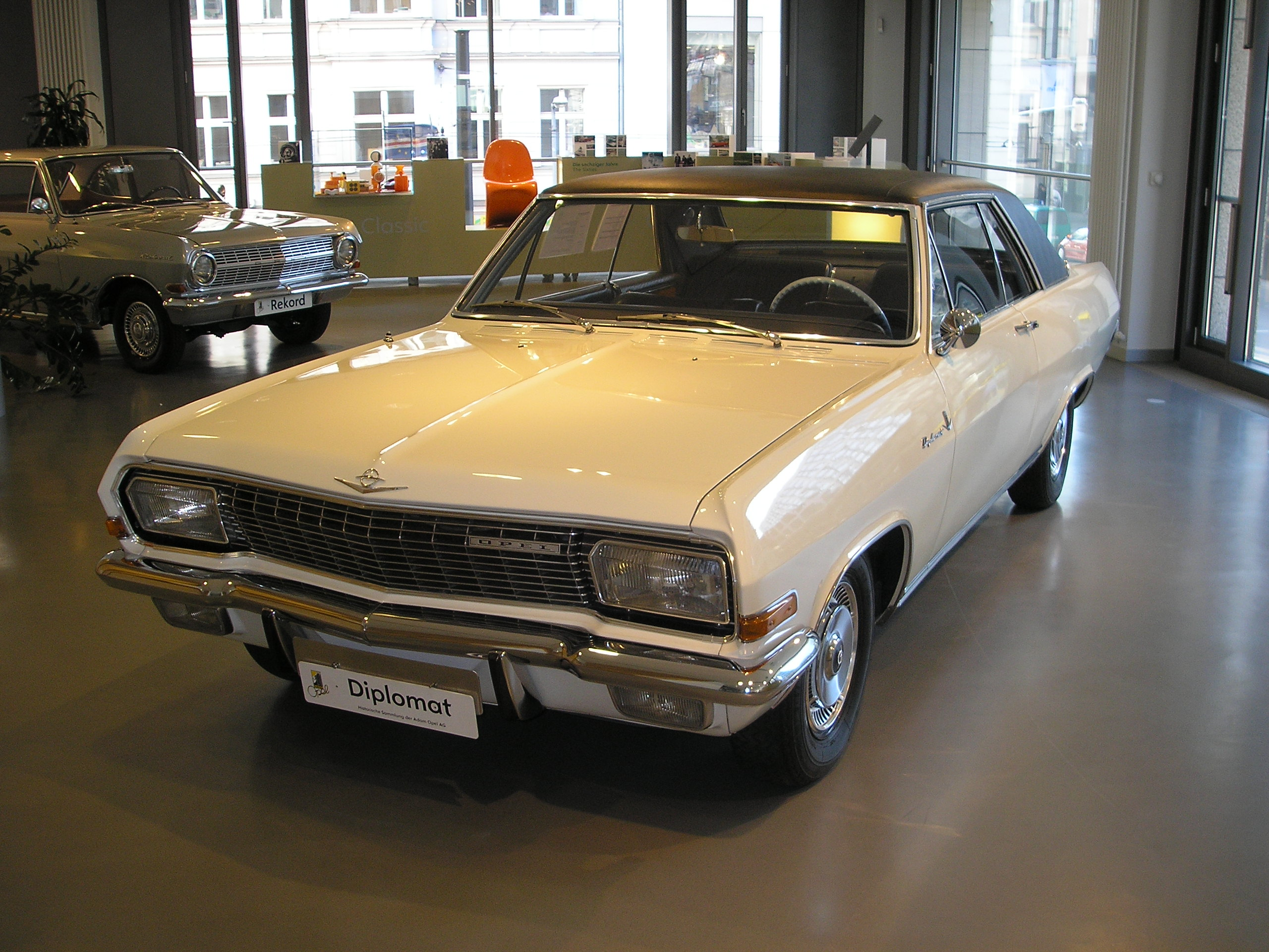 Description: Opel Diplomat, image taken at the Opel Zentrum in Berlin at Friedrichstraße. Model of around 1964 or after. Source: self-made, I release it into the public domain. Gryffindor 17:24, 9 March 2006 (UTC)